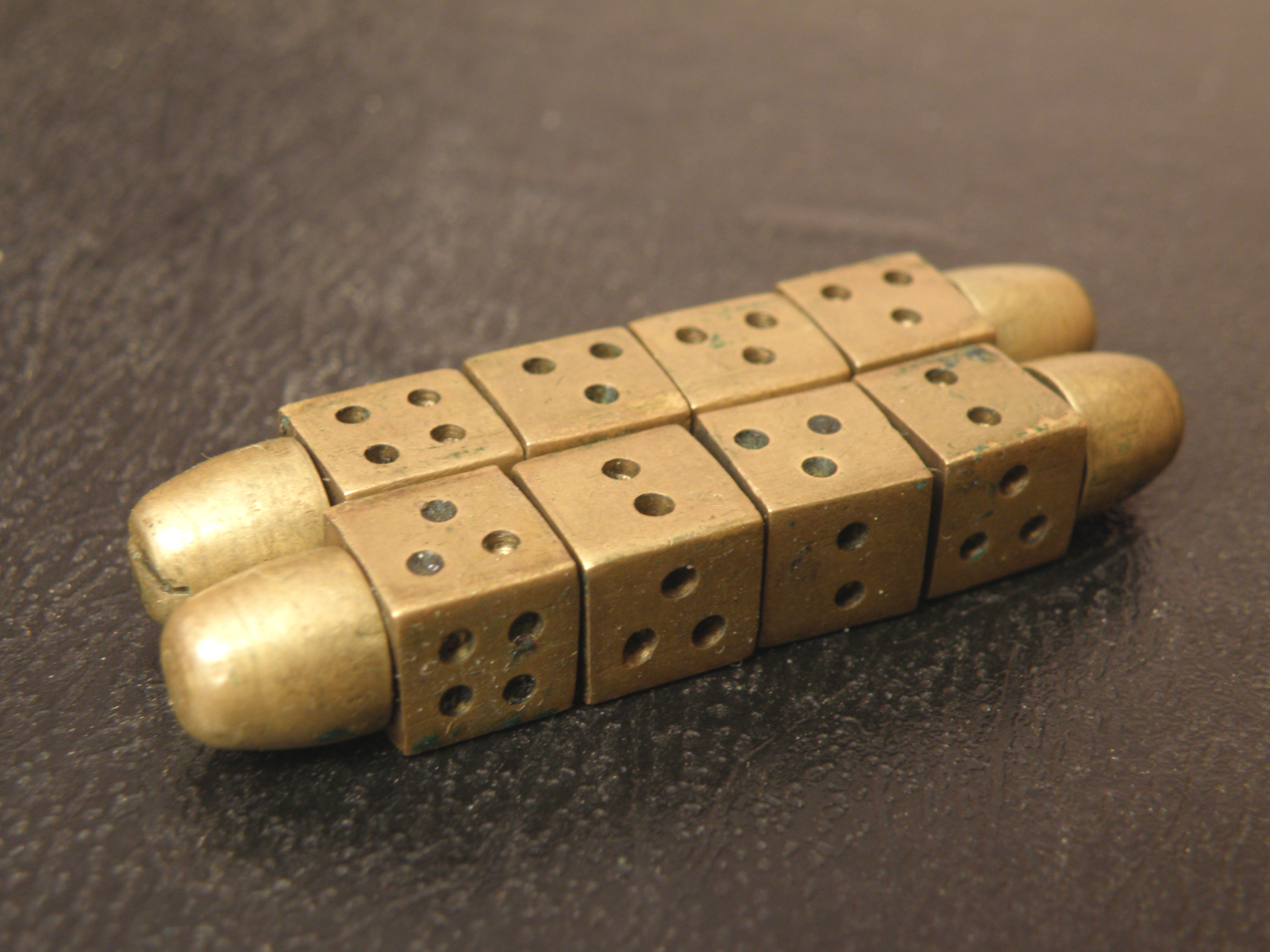 Brass Geomancy tools